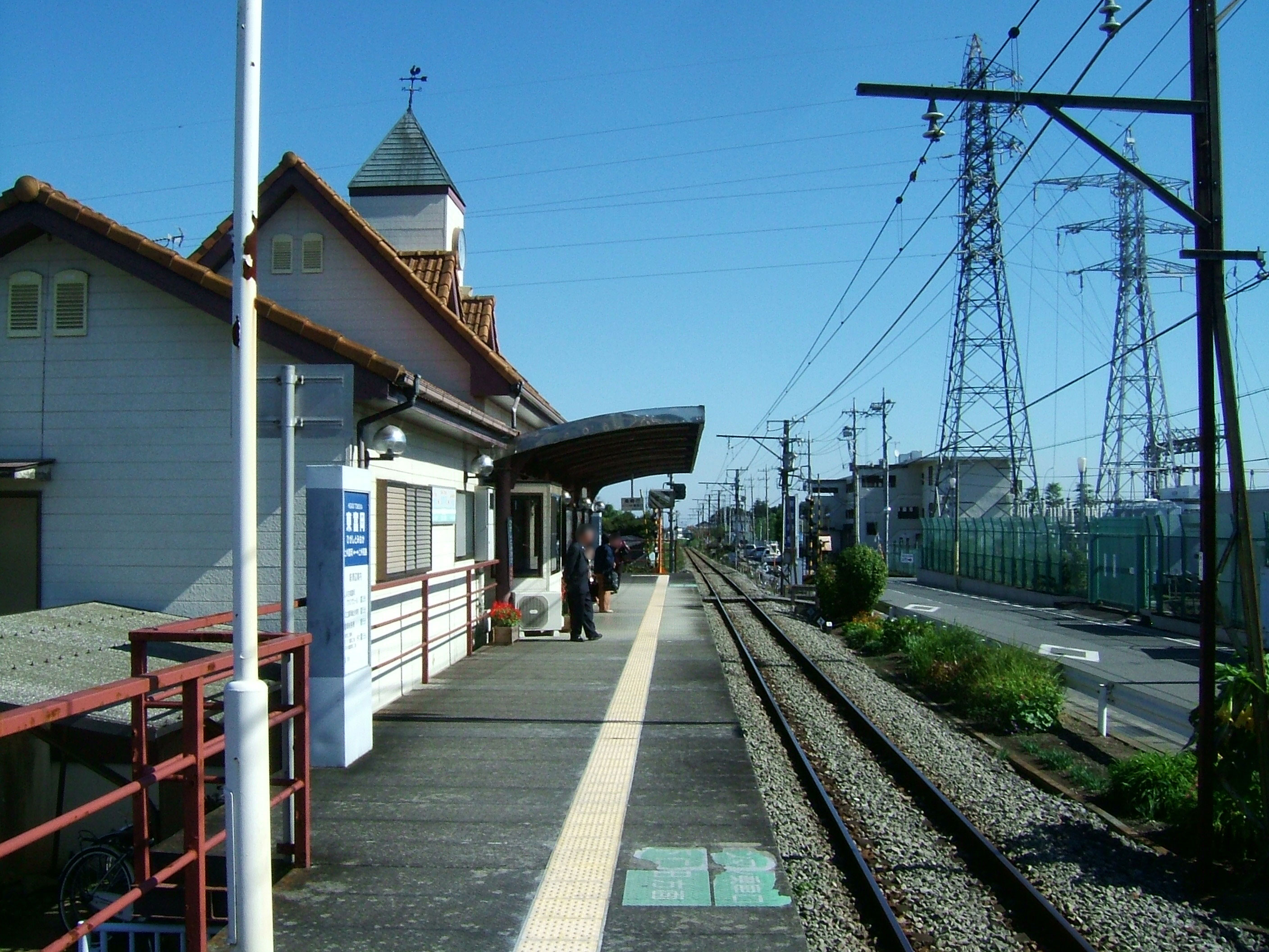 Higashi-Tomioka Station platform (Jōshin Dentetsu Jōshin Line)